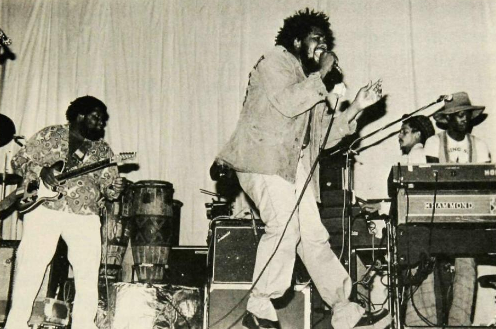 Trade ad for Inner Circle's album Reggae Thing. To better adapt it to his respective Wikipedia article, the ad was cropped and cleaned in a graphics editing program. The original can be viewed at the source below.